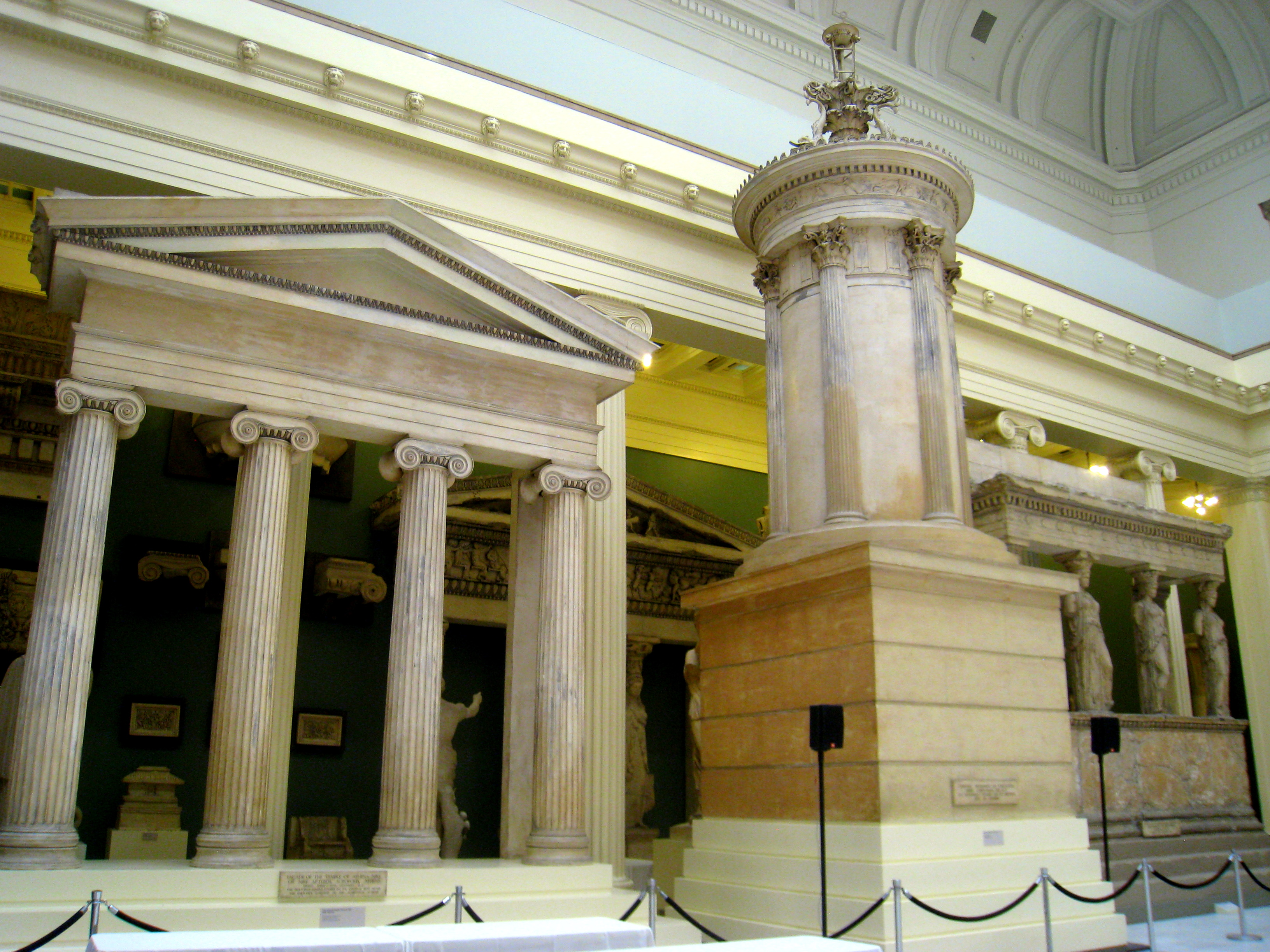 Choragic Monument of Lysicrates. Greek Corynthian. 335 BC. Reproduction. In the Hall of Architecture, Carnegie Museum of Art, Pittsburgh, Pennsylvania, USA.